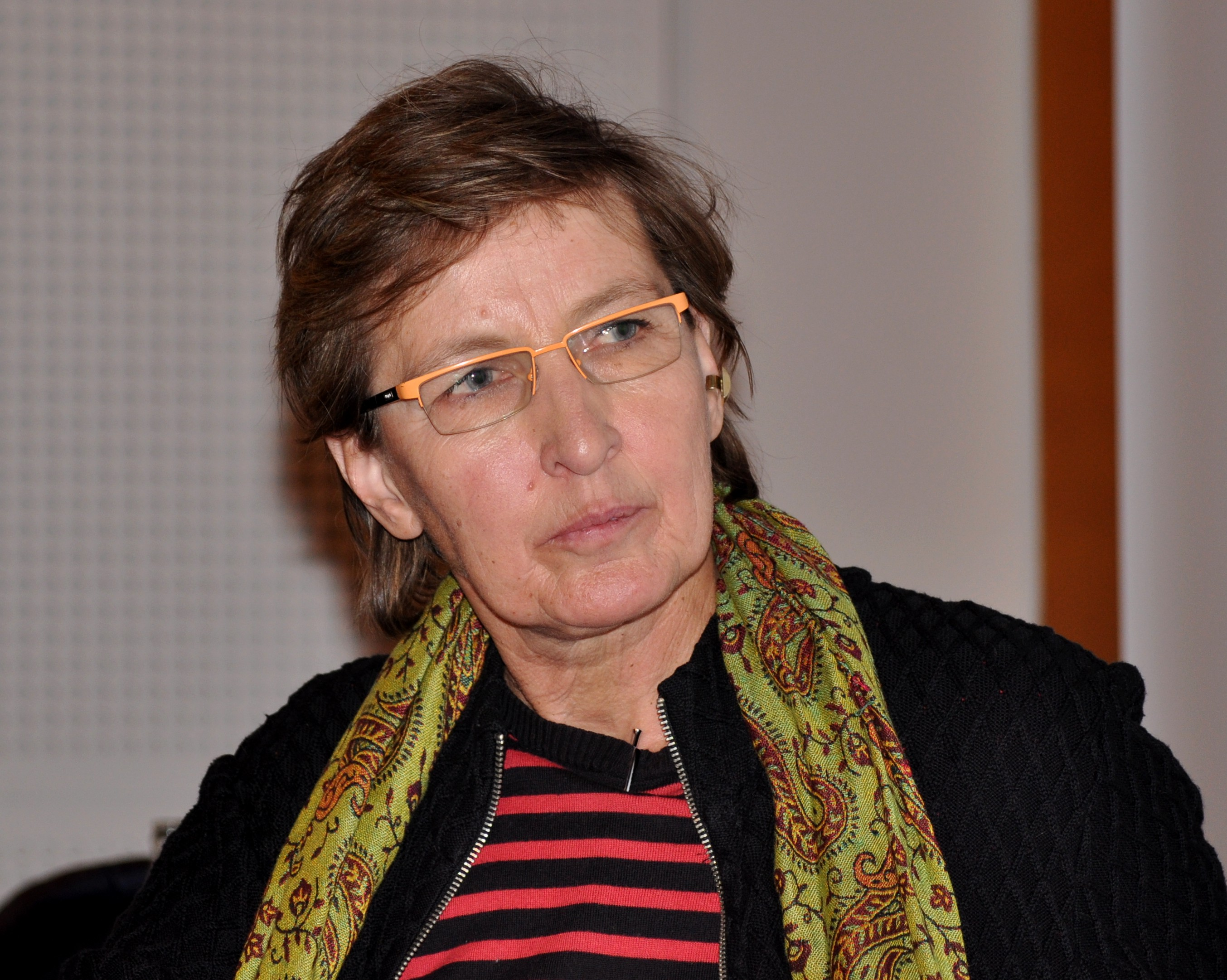 Pirjo Honkasalo, Finnish film director, at DocPoint – Helsinki Documentary Film Festival in January 2009.